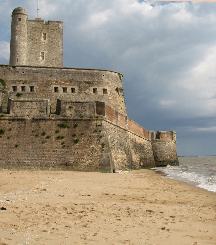 Fort Vauban, Fouras, France